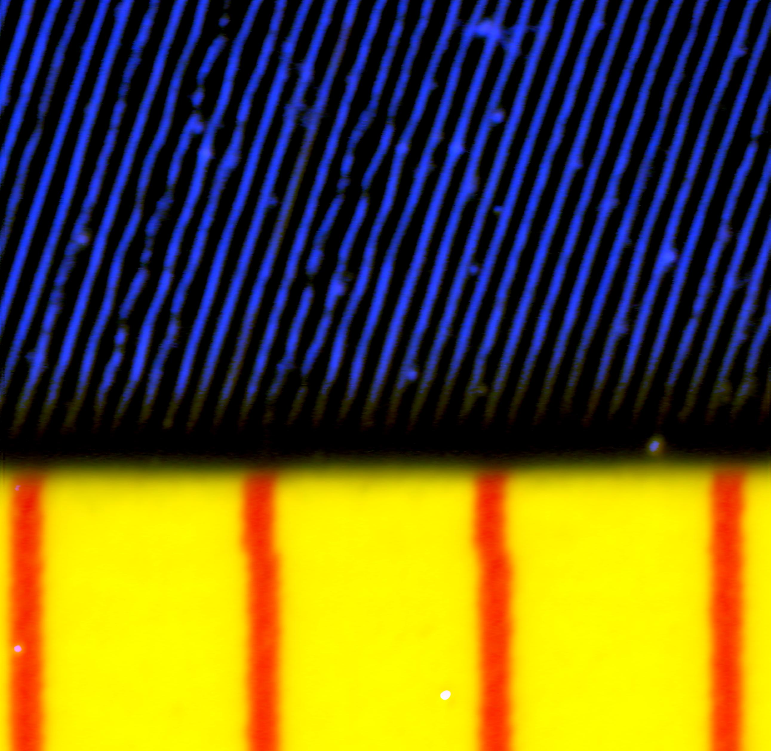 Magnified view of the grooves of a 45 rpm vinyl record (Gică Petrescu - Cântece de pahar, Electrecord EDC 590). The red lines mark one millimeter.